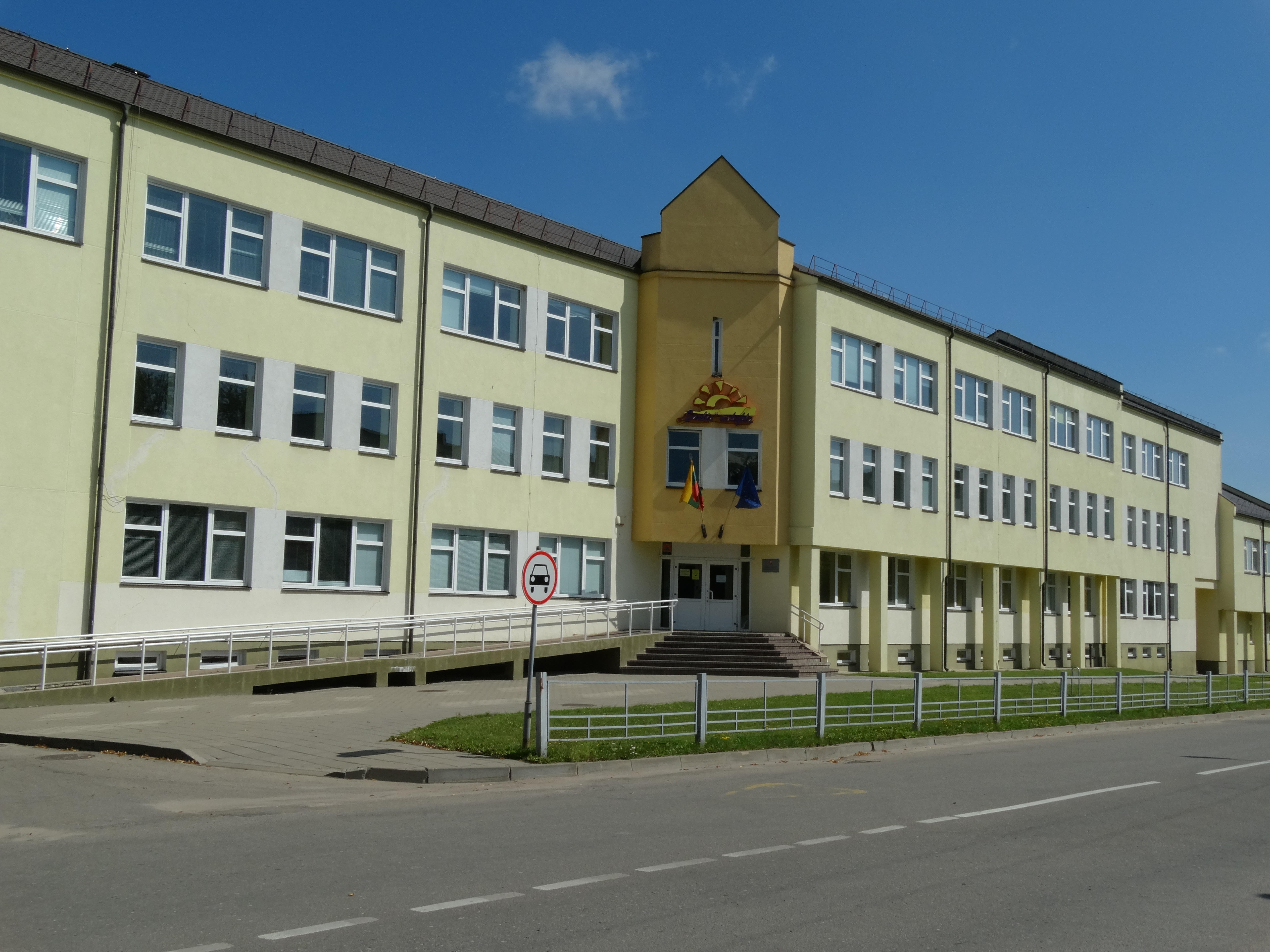 School Saulės, Joniškis, Lithuania